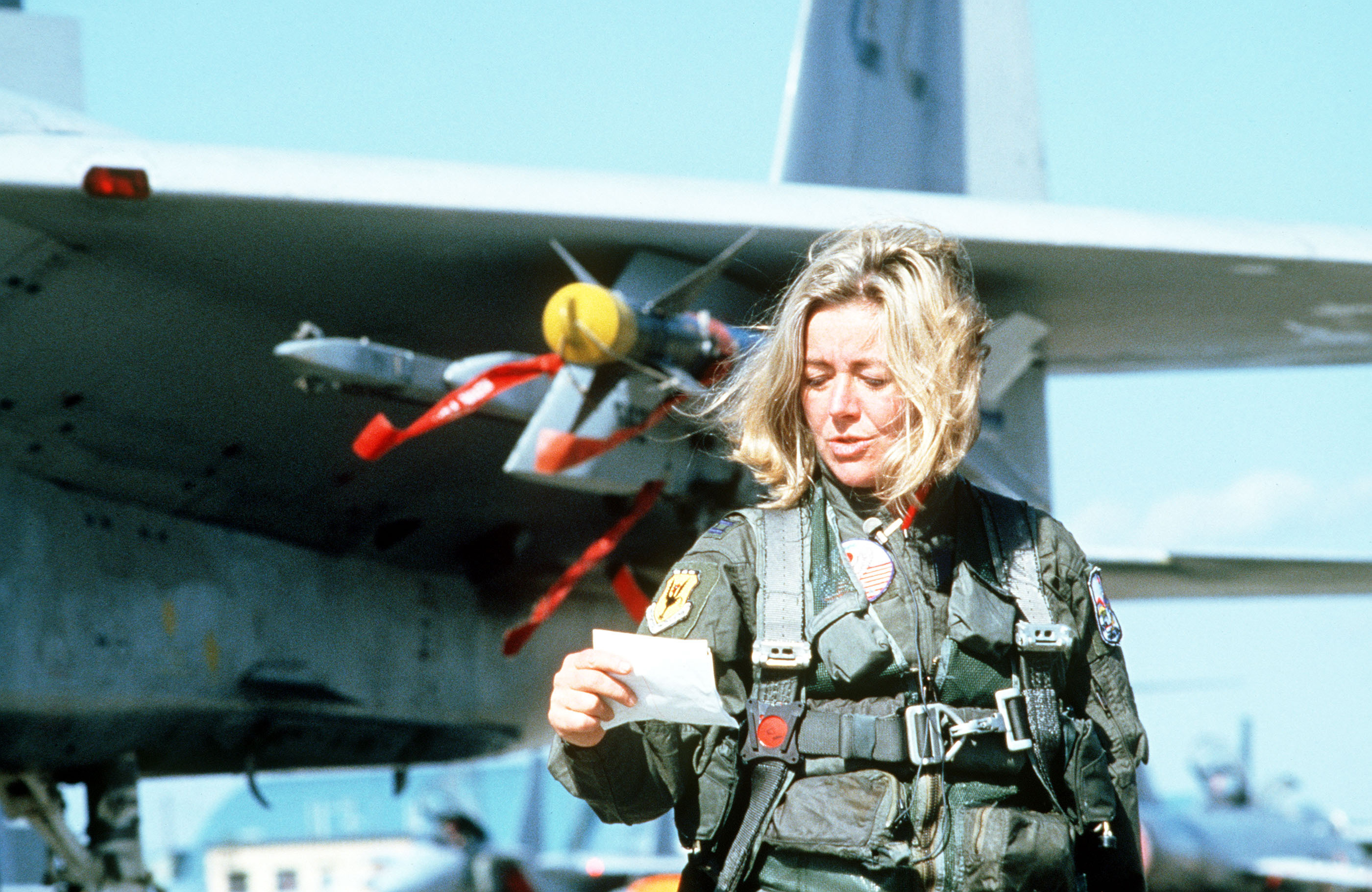 ABC News reporter Sylvia Chase prepares to fly in the backseat of an F-15B Eagle aircraft during the joint Japanese Air Self Defense Force (JASDF) and US Air Force exercise COPE NORTH 84-1. Chase and a film crew are at the base to gather information for an upcoming "20/20" segment on the defense of Japan.